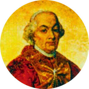 Portait of Pope Pius VI in the Basilica of Saint Paul Outside the Walls, Rome